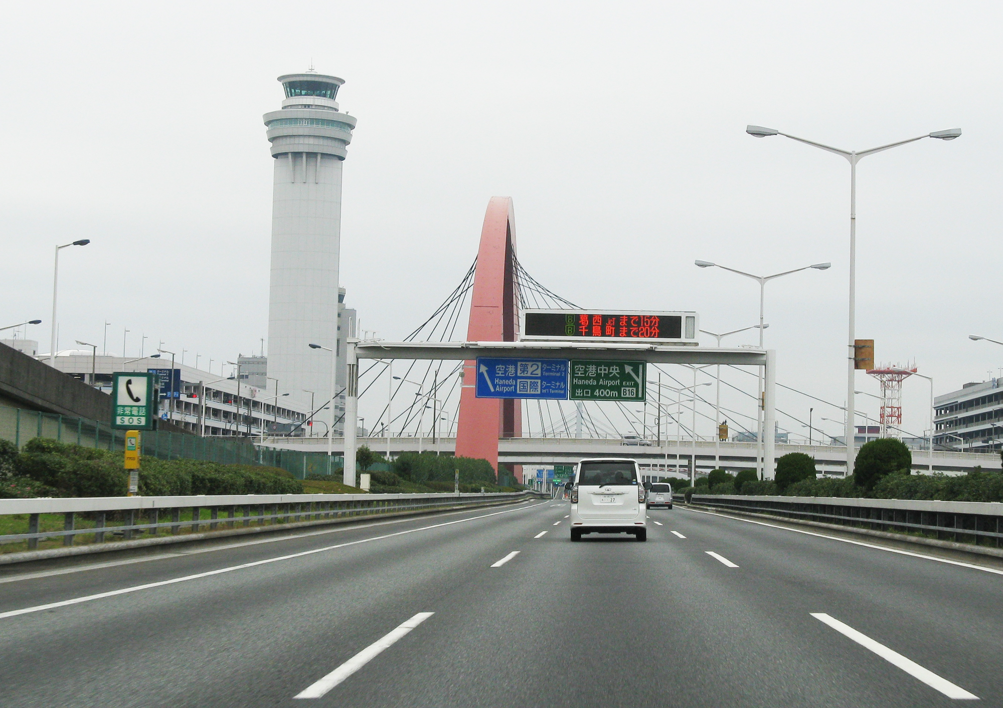 I took this photo.